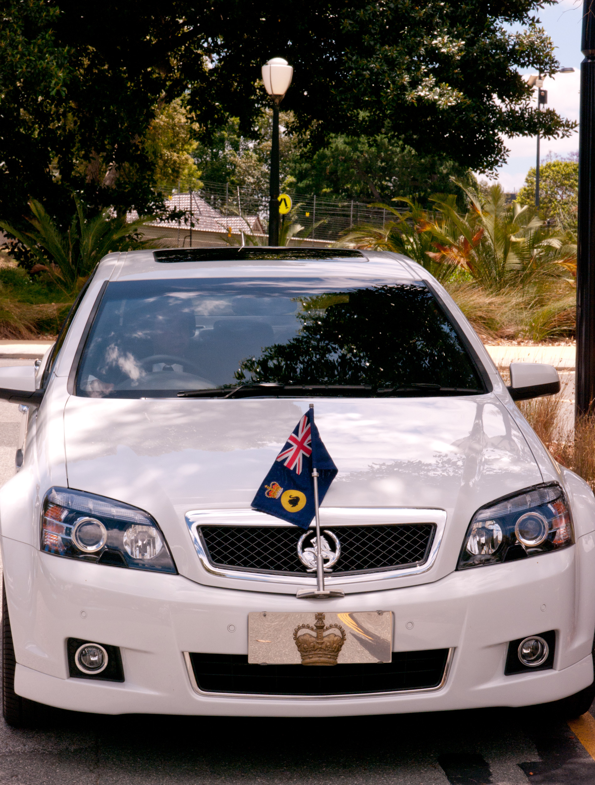 Western Australian Governors official car